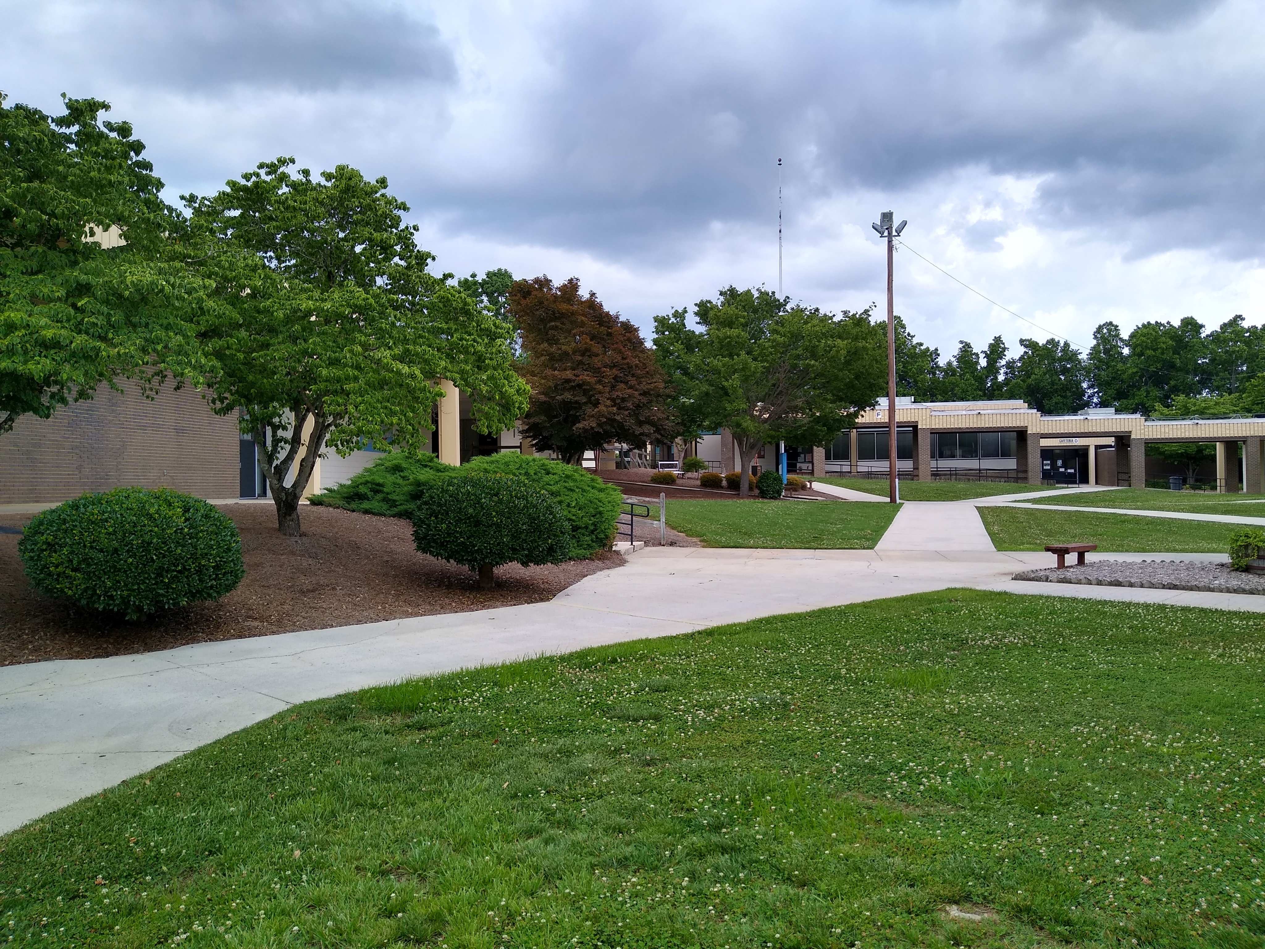 Trinity High School in Trinity, North Carolina, United States.